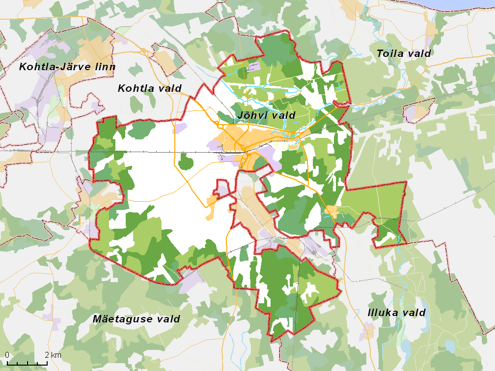 Map of municipality in Estonia